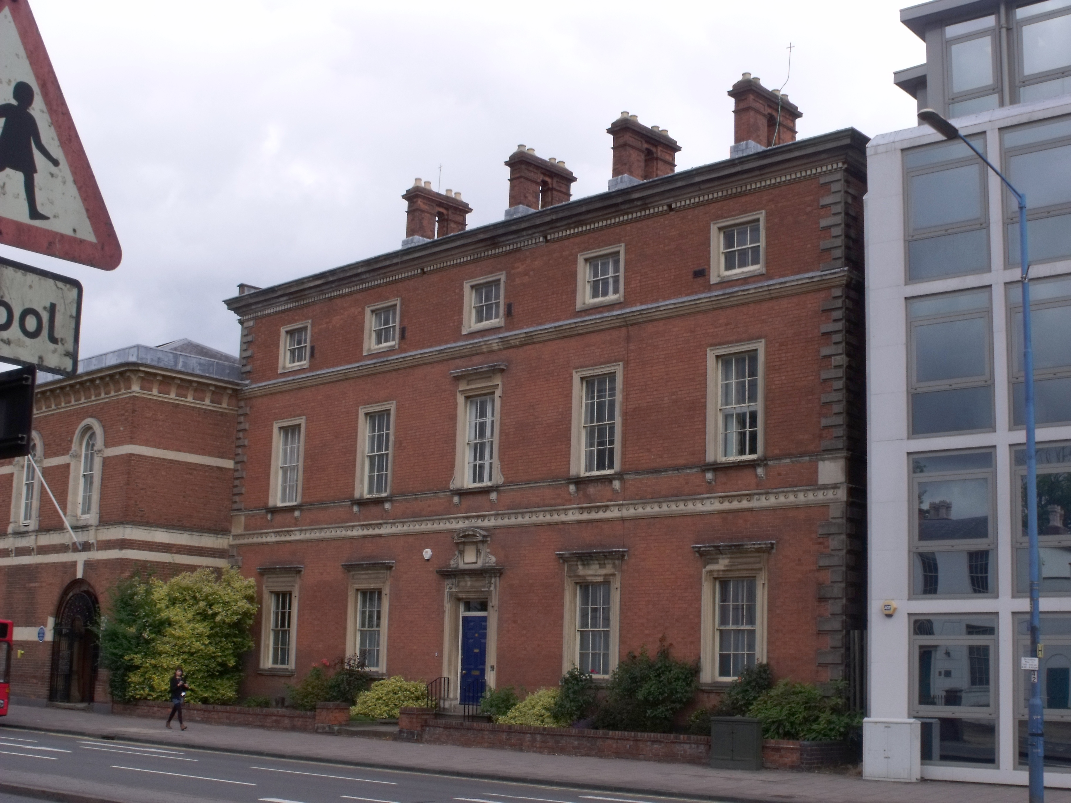 This is the Birmingham Oratory on Hagley Road and Plough and Harrow Road in Edgbaston, Birmingham. In September 2010, Pope Benedict XVI came here after beaufifying Cardinal John Henry Newman. On the right side is the The Oratory Priests' House at 141 Hagley Road. It is Grade II * listed and was the home of John Henry Newman. The Oratory Priests' House 141 - British Listed Buildings 1850-1. Red brick with stone dressings; slate roof. Three storeys; 5 bays with quoins left and right. In an Italian Renaissance style. Grould floor with central panelled door within stone surround with cornice and superimposed segment headed panel flanked by vaults and 4 windws with stone eared and corniced surrounds. Guilloche band at first floor level and a moulded band at first sill level. First floor with 5 windows, the central one with eared and corniced surround, the others with simple moulded surrounds. Cornice band at second floor level. Second floor with 5 almost square windows, the centre with eared surround, the others with simple surrounds. Eaves cornice with dentils and mouldings. The home from 1852 to 1890 of John Henry, Cardinal Newman with his rooms preserved in original condition. View from the other side of the road.